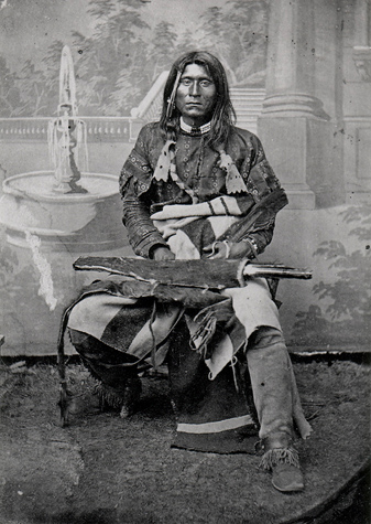 Modoc chief Kintpuash (better known as Captain Jack) (337 x 475). This photo is in the public domain, as it was taken in 1864. The original is in the collection of the Southwest Museum.